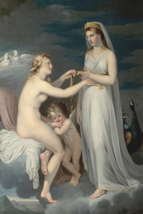 Juno Borrowing the Girdle of Venus by Guy Head(attributed to) Date painted: c.1771 Oil on canvas, 198.1 x 146.1 cm Collection: Nottingham City Museums and Galleries